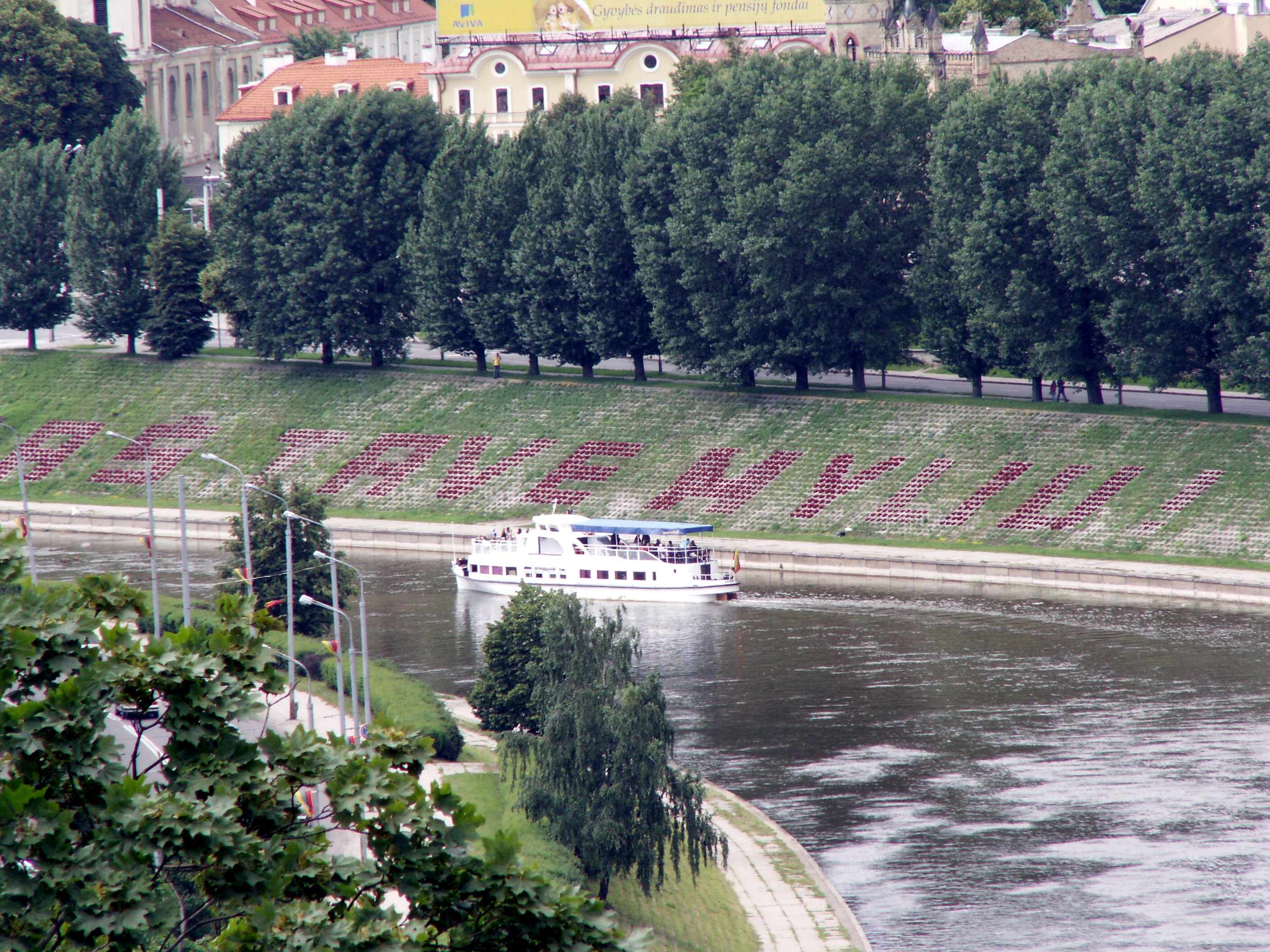 I lowe you, flowers-script in quay of Neris in Vilnius, Lithuania